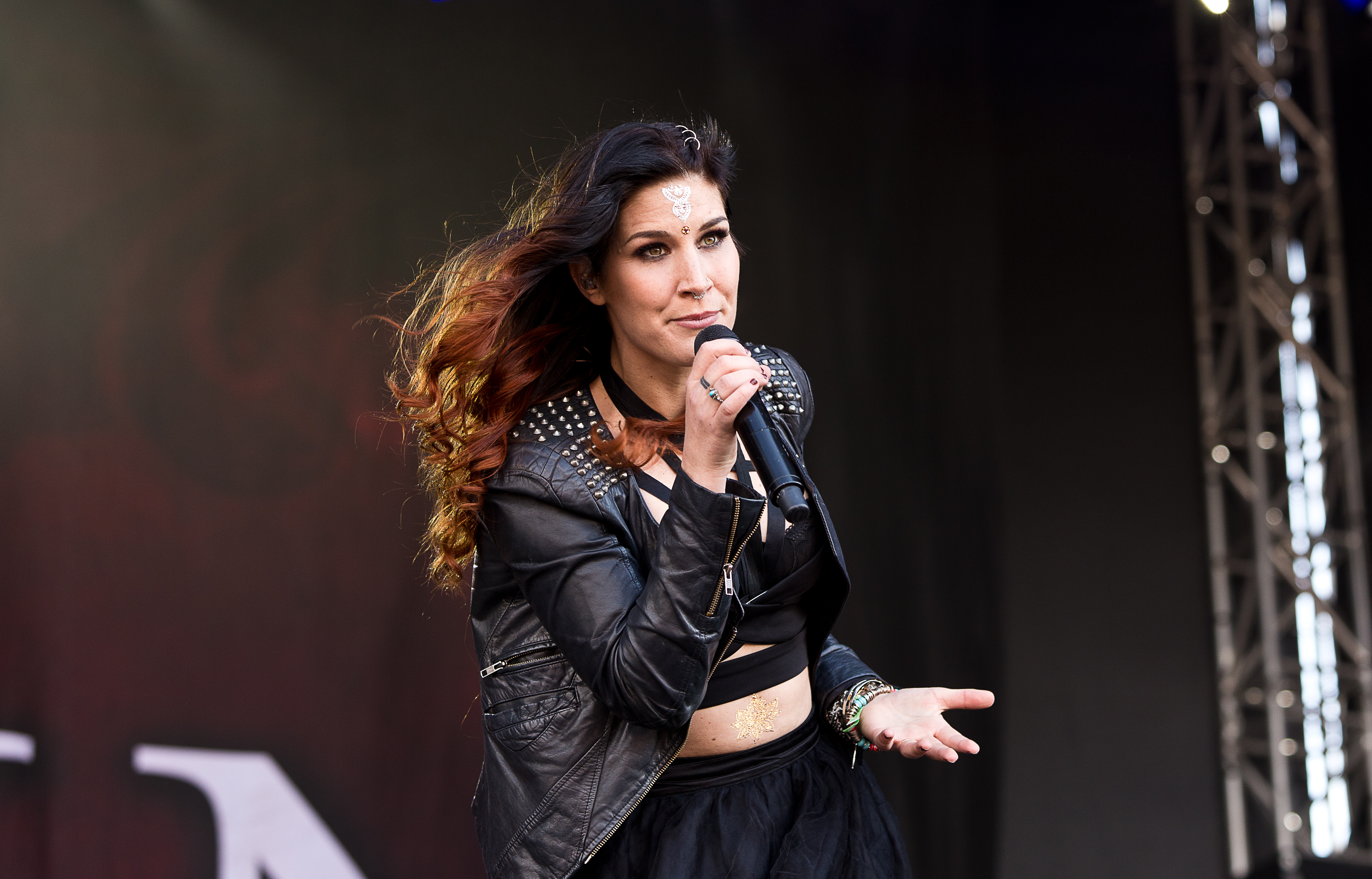 The Dutch symphonic metal band Delain at the Rockharz Open Air 2015 in Ballenstedt/Germany.